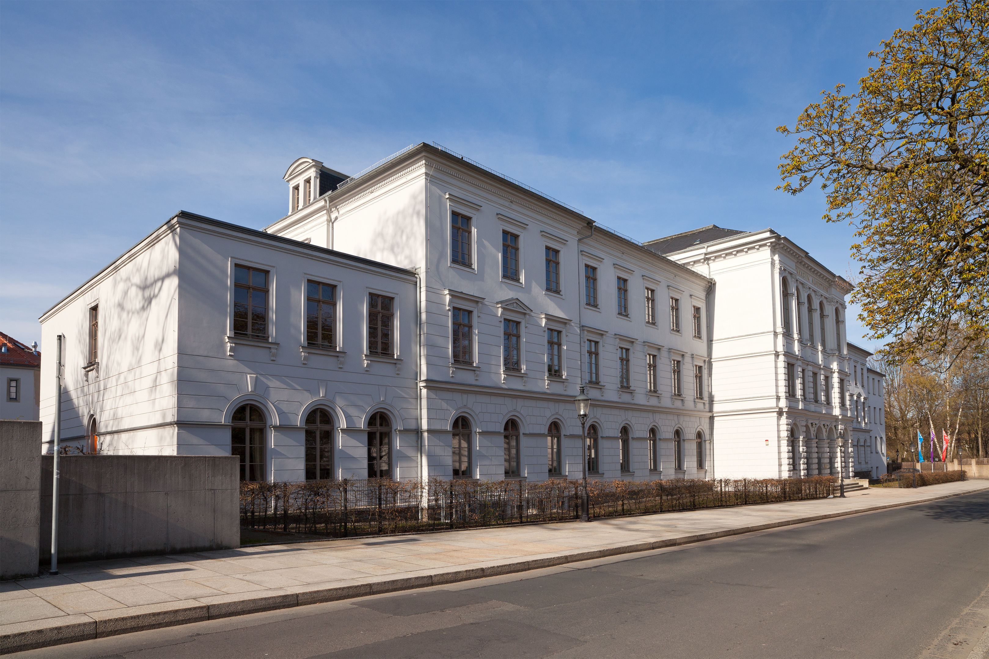 Freiberg, school "Geschwister-Scholl-Gymnasium", "Albertinum" building